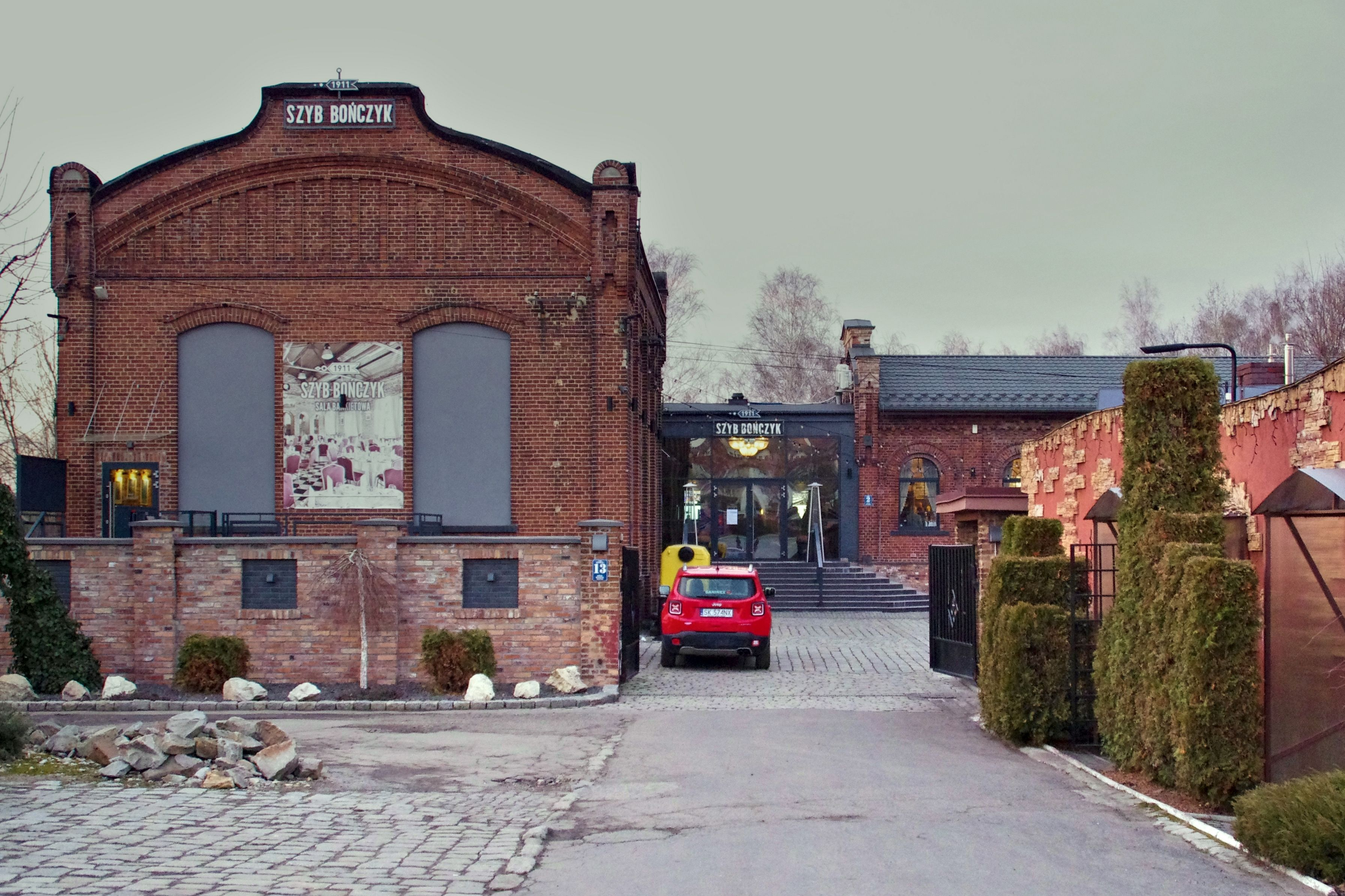 buildings of former Bończyk (Otto) ventilation shaft of Mysłowice coal mine, 13 ks. Norberta Bończyka Street in Mysłowice, now banquet and conference complex Szyb Bończyk